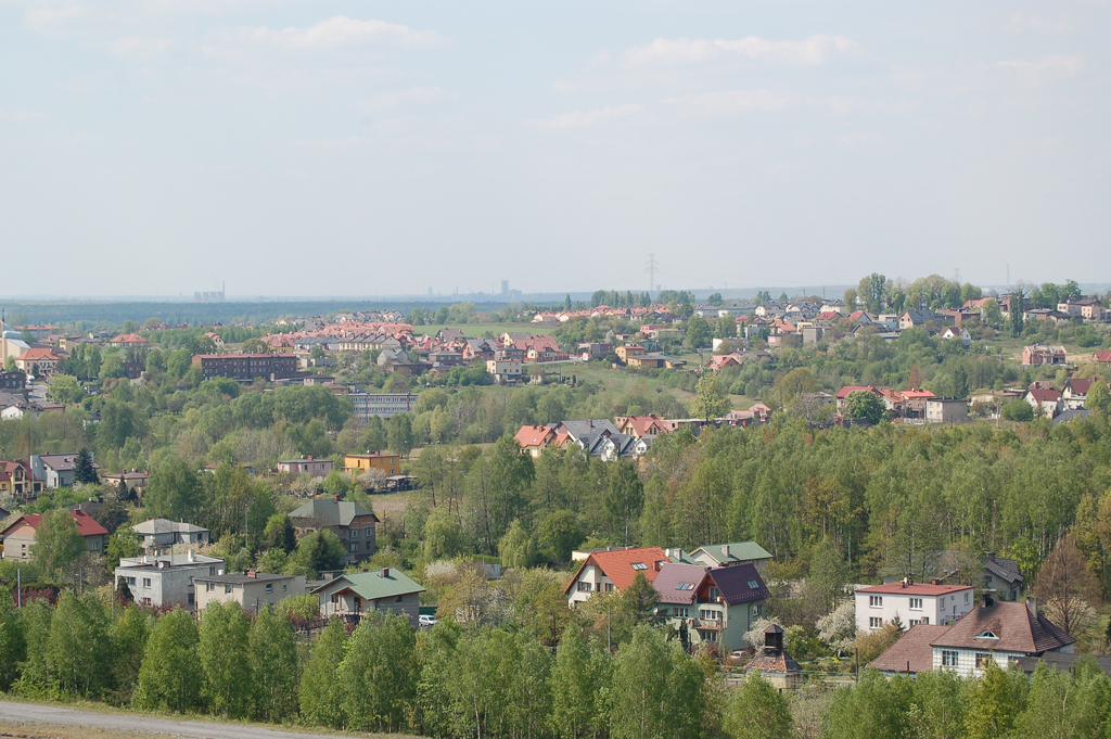 Wiev of Kostuchna (southern part of Katowice)